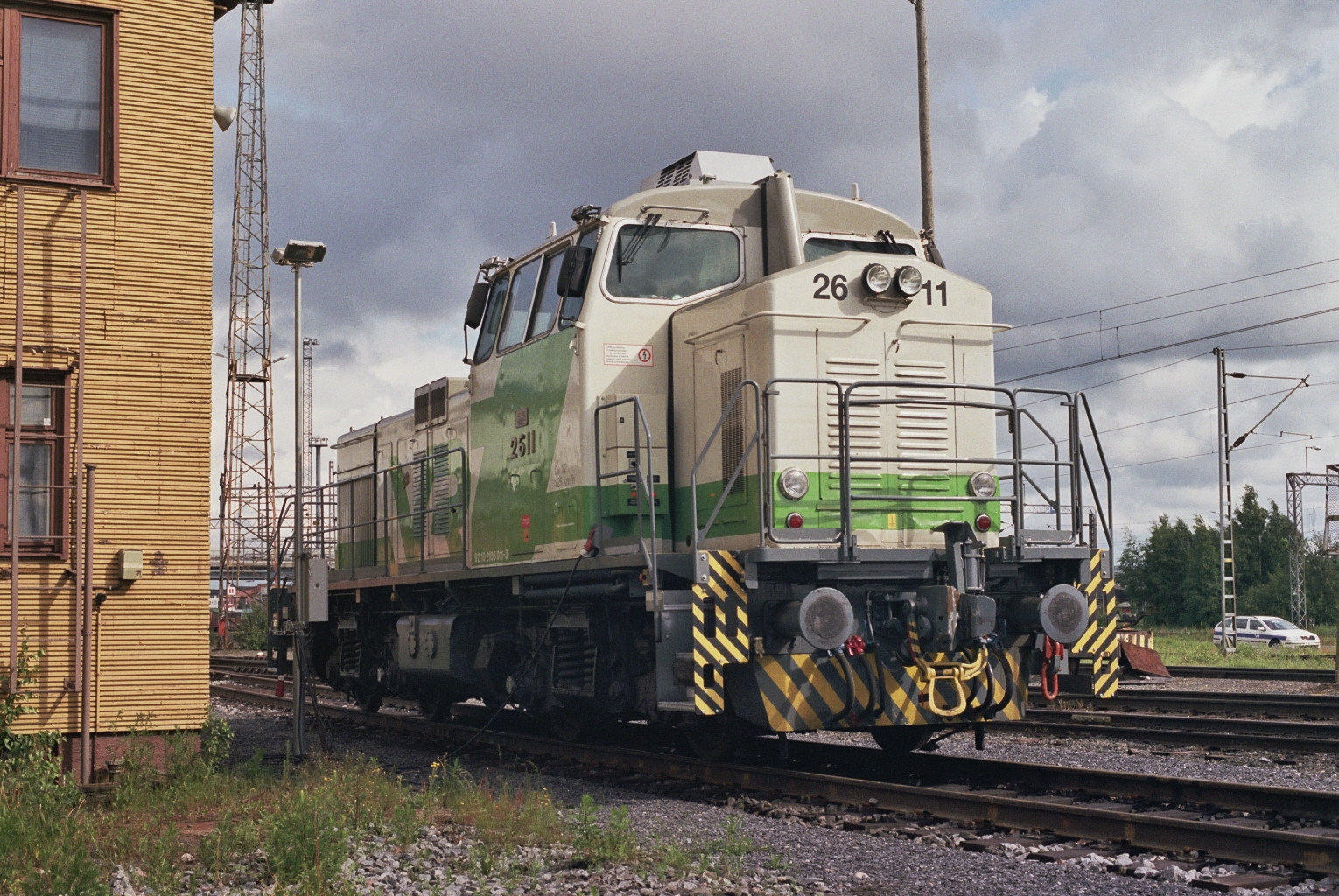 A Finnish diesel locomotive, VR class Dv12, number 2611, in the VR freight yard at Oulu, Finland.